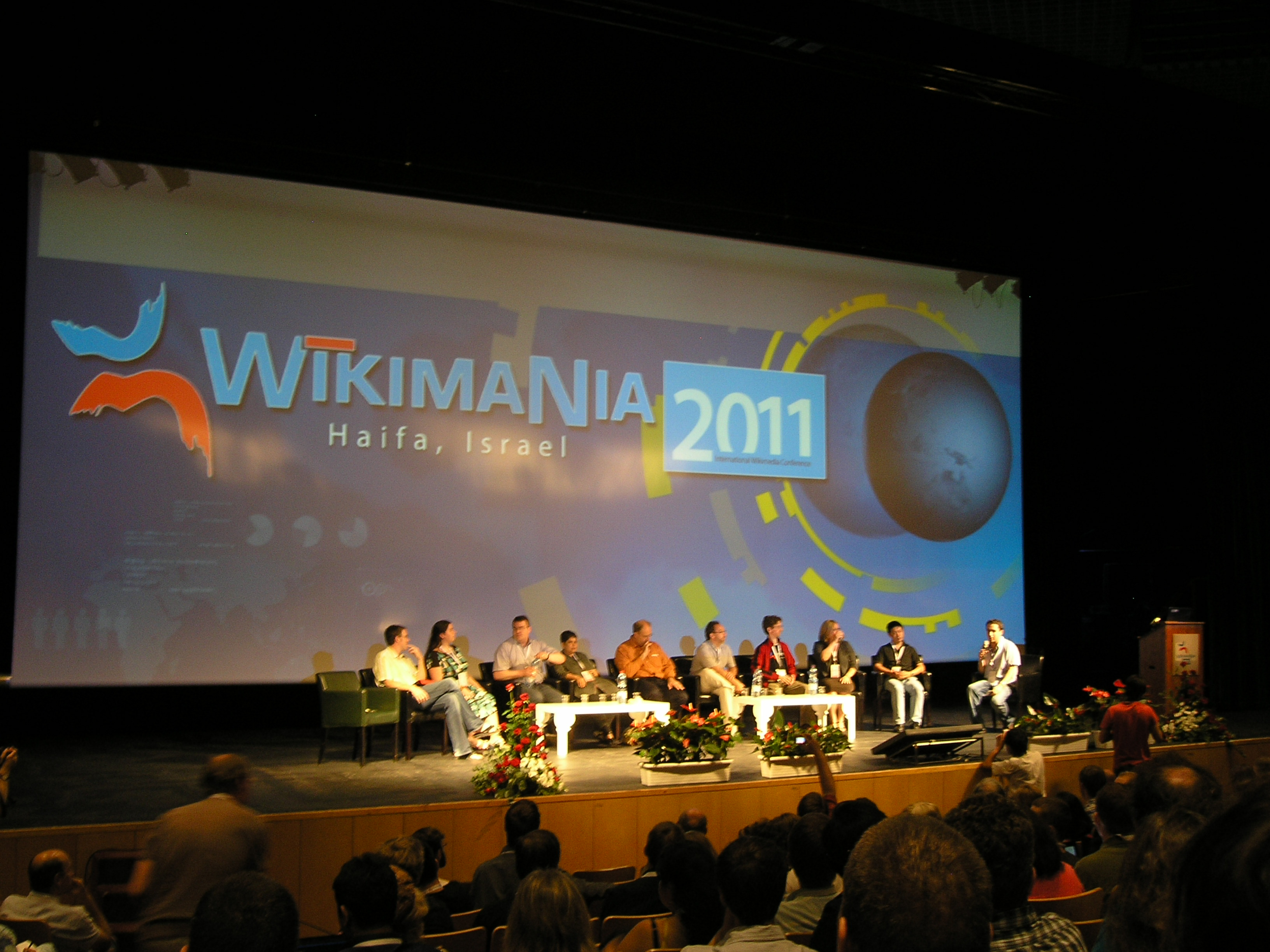 Plenary; Wikimania 2011 - Haifa (Israel)